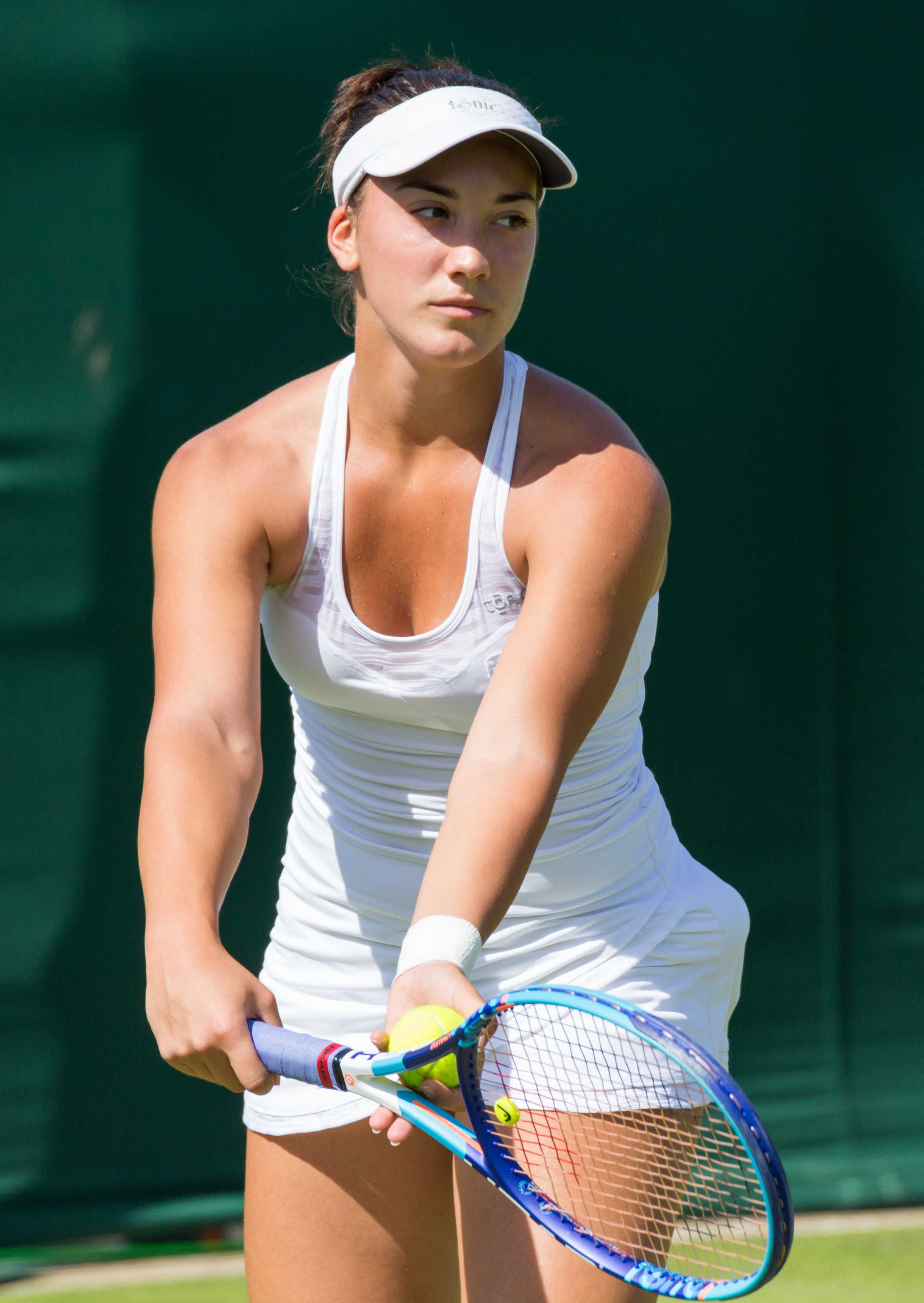 Danka Kovinić competing in the first round of the 2015 Wimbledon Championships against Samantha Stosur.